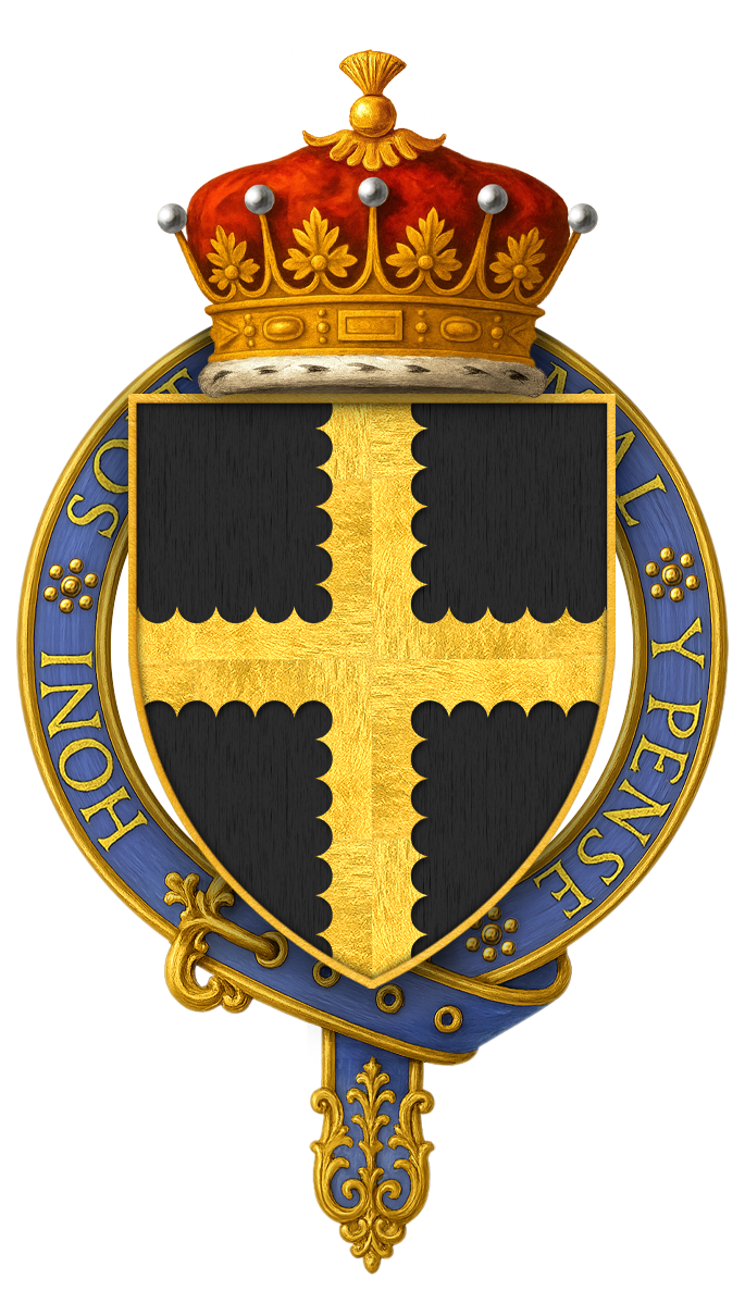 Coat of Arms of Sir Robert, and of Sir William, d'Ufford, 1st and 2nd Earls of Suffolk, KG “Robert Ufford First Earl of Suffolk… Arms: Sable, a cross engrailed Or.” BELTZ, George Frederick, Memorials of the Order of the Garter from Its Foundation to the Present Time, London: William Pickering, 1841. “William Ufford Second Earl of Suffolk… Arms: Sable, a cross engrailed Or.” BELTZ, George Frederick, Memorials of the Order of the Garter from Its Foundation to the Present Time, London: William Pickering, 1841. The arms of Ufford survive in the west window of St Nicholas's Church, Bedfield, Suffolk[1]